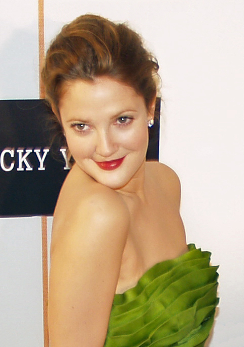 Drew Barrymore headshot